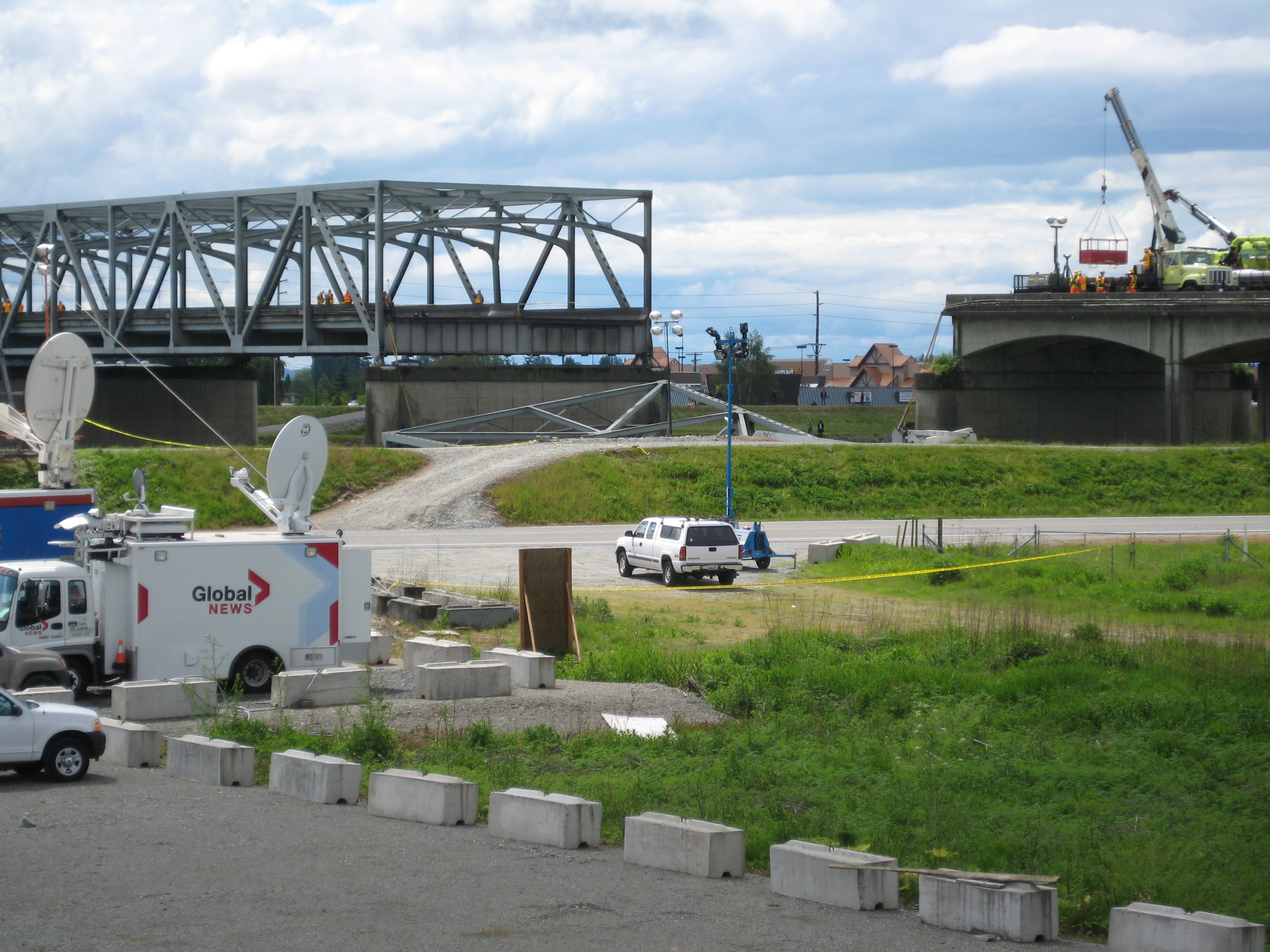 Skagit River Bridge Collapse